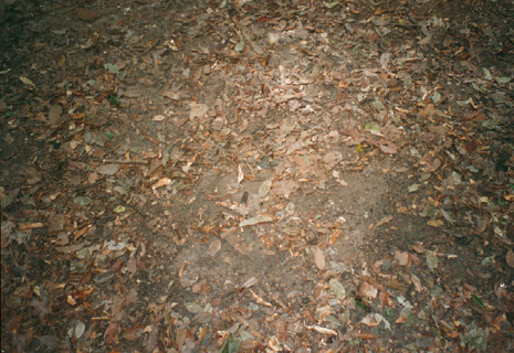 A closed trap door leading into the Cu Chi Tunnels in Vietnam. Completely camouflaged, the trap door is invisible.